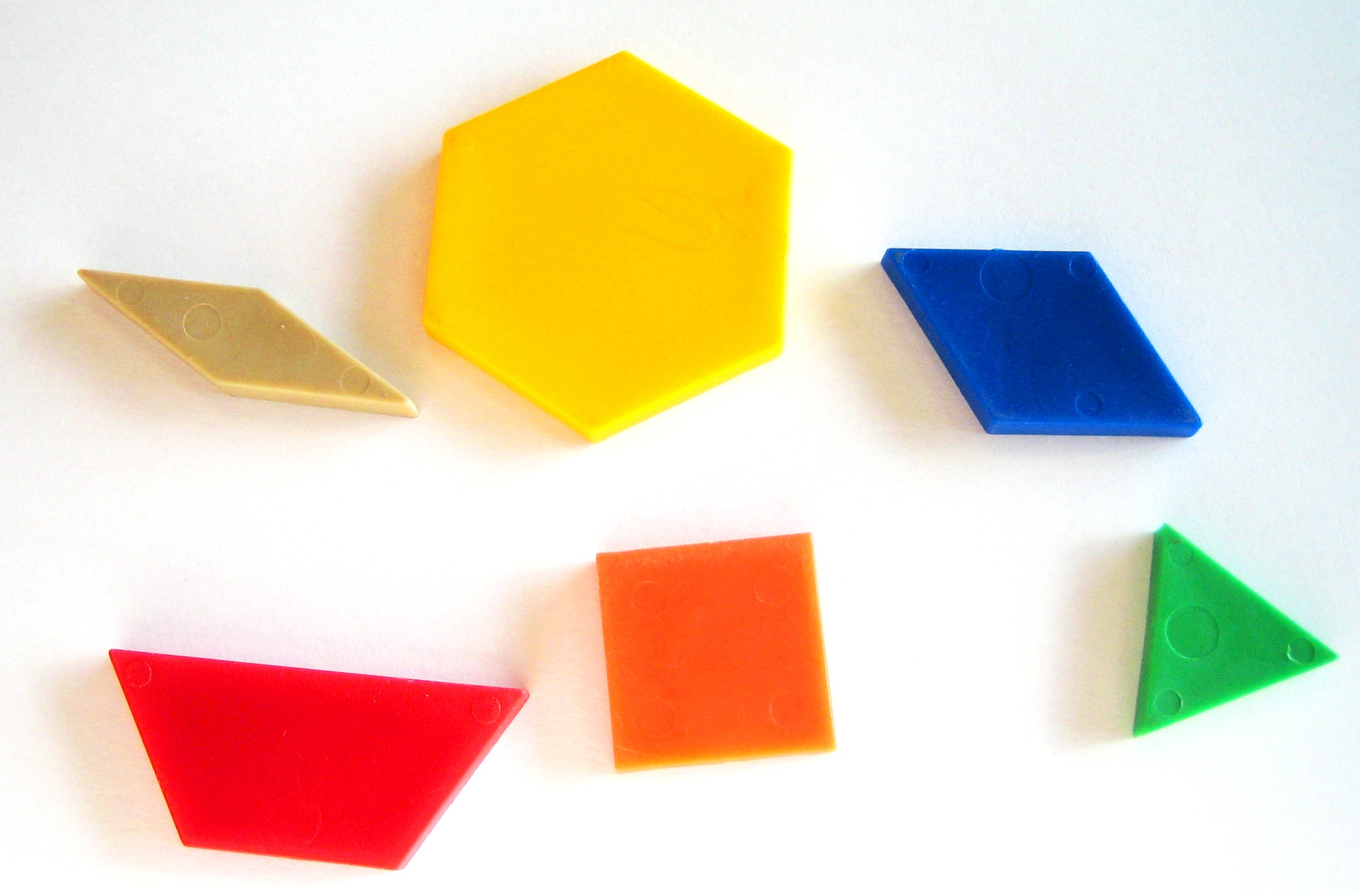 Plastic pattern blocks, mathematics teaching materials: there are six shapes: square, hexagon, a thin rhombus, a fat rhombus, an equilateral triangle and a trapezium (US: trapezoid). All have the same unit length.